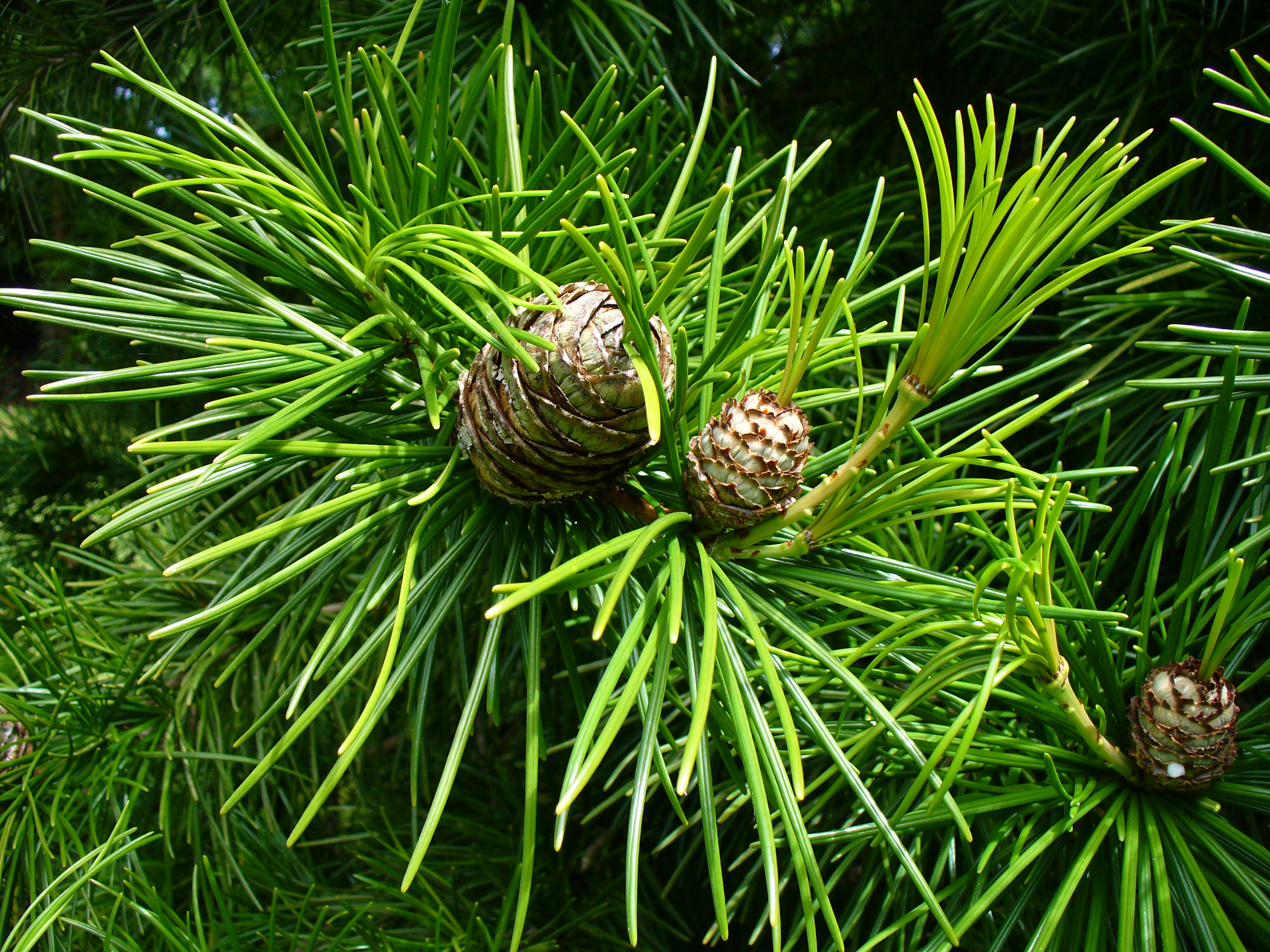 Sciadopitys verticillata foliage, mature and immature cones. Cultivated, Pine Lodge Garden and Nursery, St. Austell, Cornwall, UK.